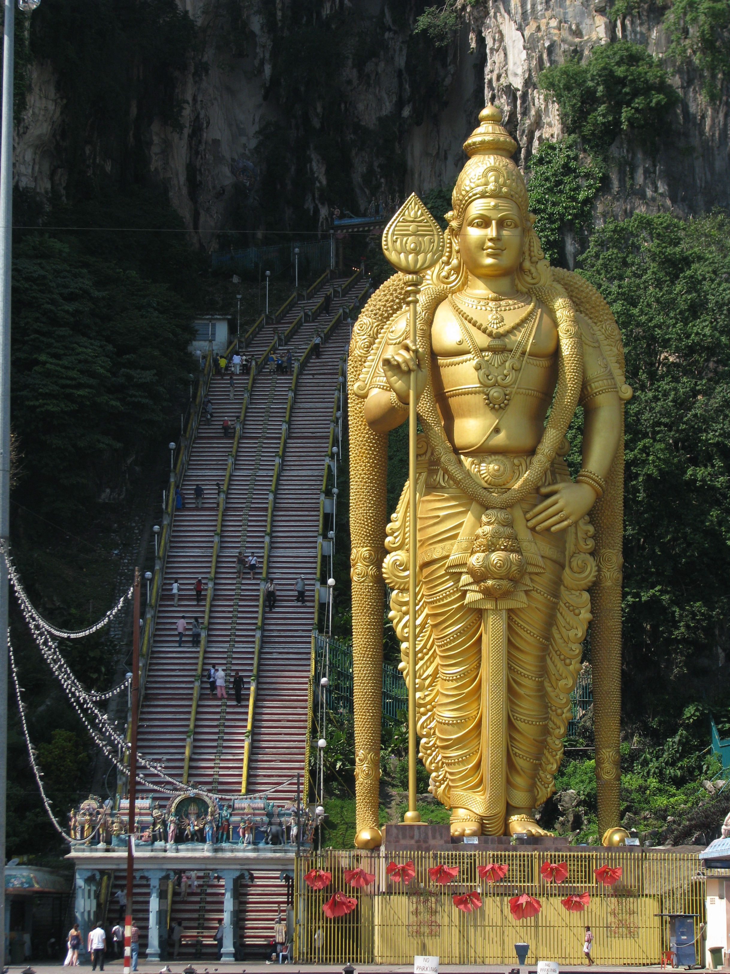 The dramatic and holy Batu Caves are a major Hindu pilgrim site outside India and features the tallest statue of Lord Murugan, seen out front. There are 272 steps to climb to the caves.